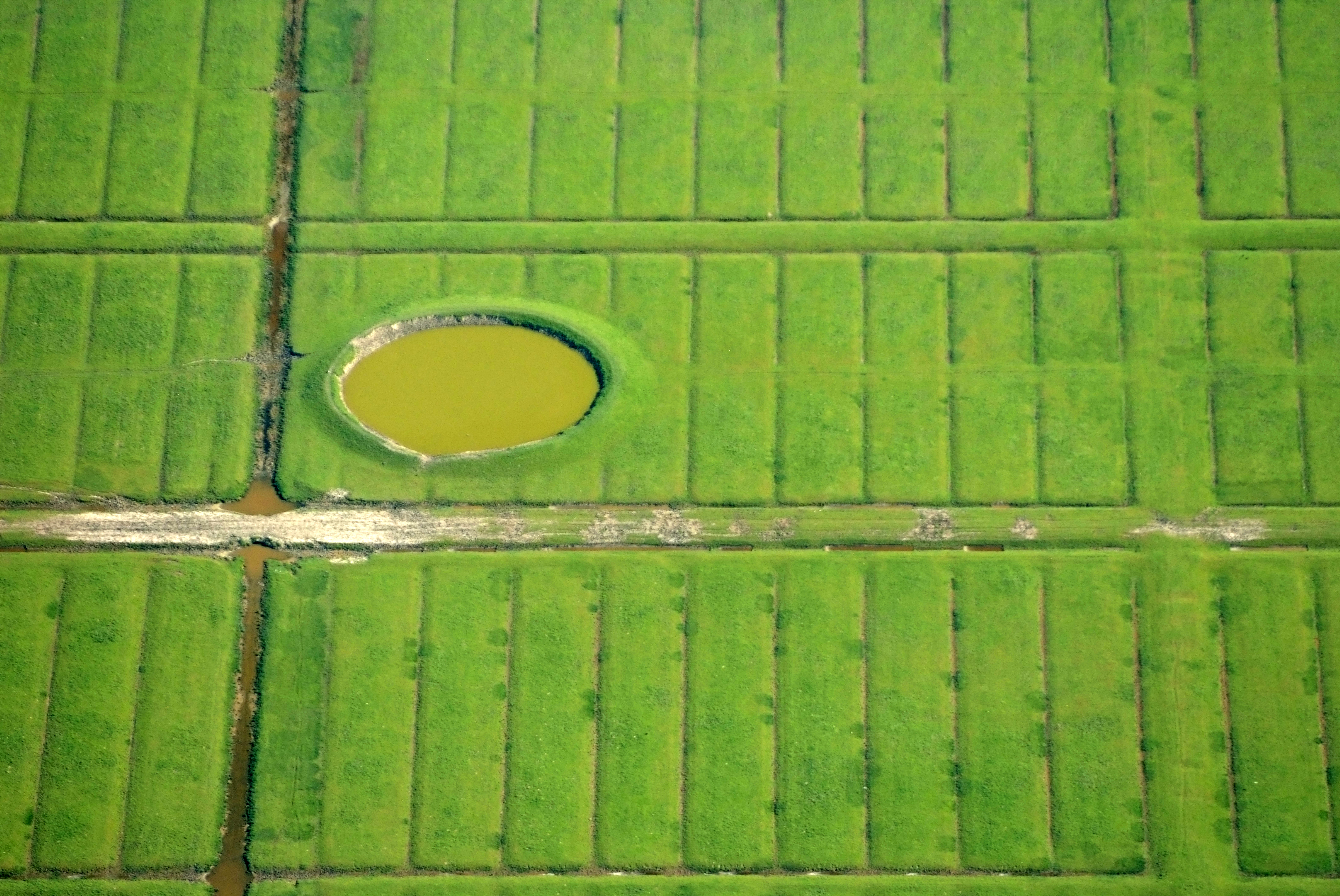 Aerial view of a Second World War bomb crater in a polder near Neßmersiel, North Sea coast